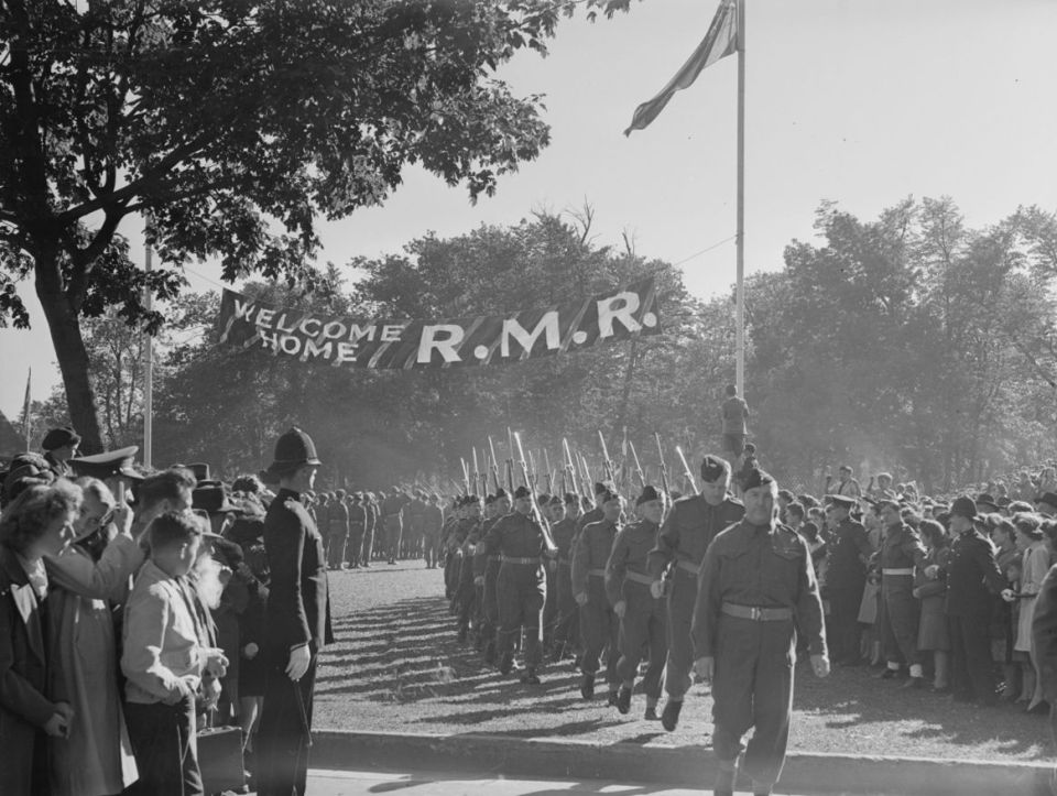 Soldiers of The Royal Montreal Regiment are parade after the welcoming ceremony. In the background we see a banner with the inscription "Welcome Home R. M. R.".